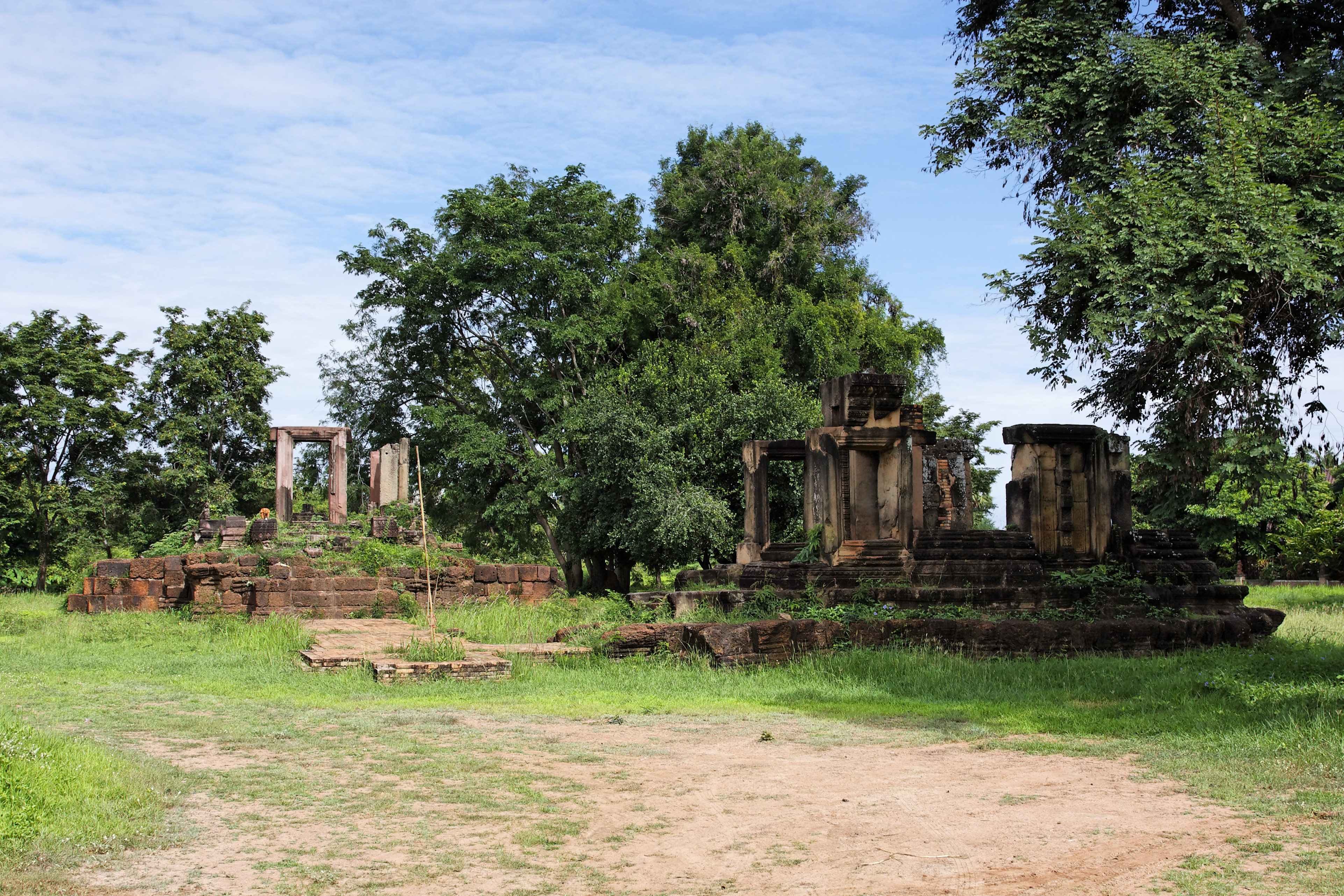 Prasat Pha Kho, Thailand